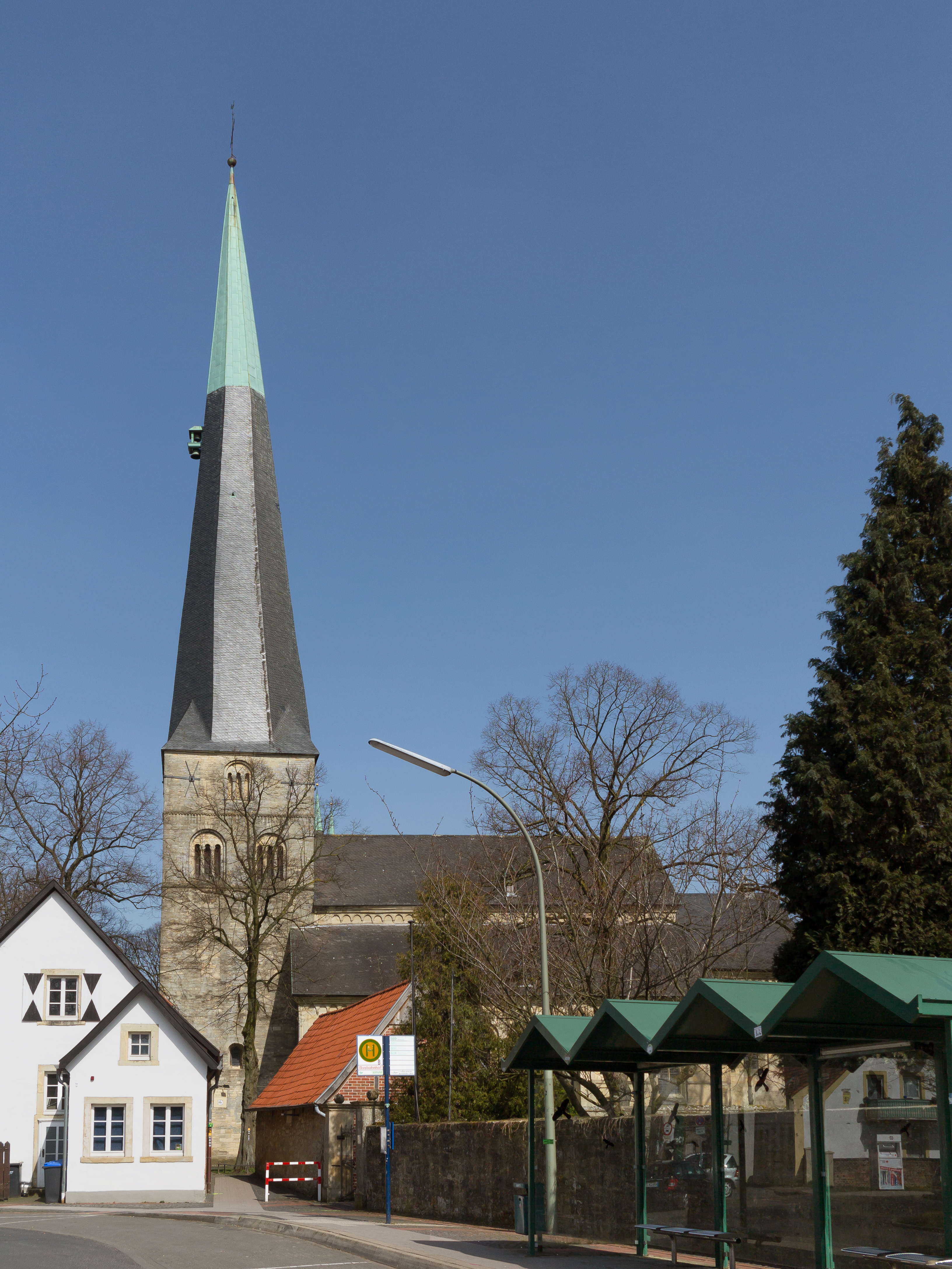 Billerbeck, church: die JohanniskircheThis is a photograph of an architectural monument., no. 10